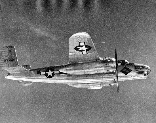 North American F-10 Mitchell, aerial reconnaissance version of the B-25 bomber.